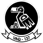 Patch of the U.S. Navy Electronic Attack Squadron 137 (VAQ-137) "Rooks".